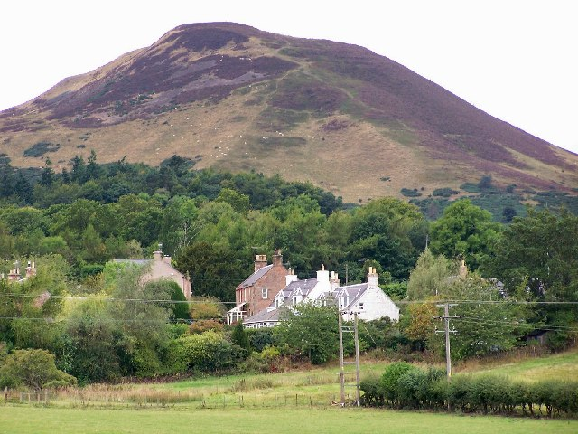 Eildon Village. The cosy huddle of houses in Eildon village is dwarfed by the bulk of Eildon North Hill.